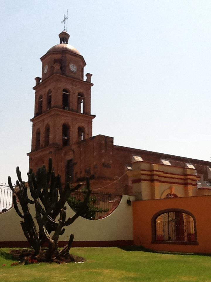 vista del templo desde la casa de la cuñtura